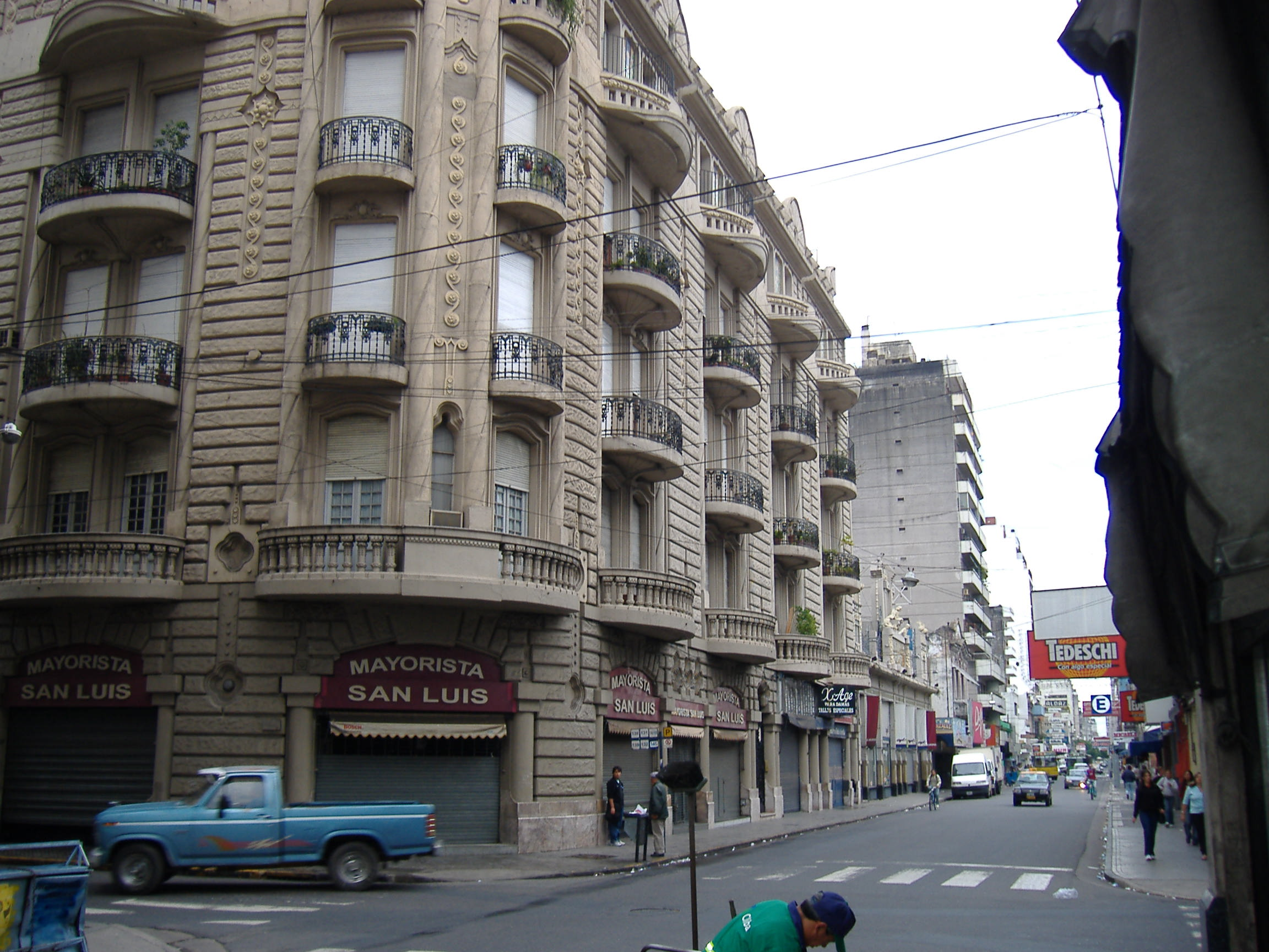 The intersection of San Luis St. & Sarmiento St. in downtown Rosario, Argentina. The luxurious building facing the camera is the Palacio Cabanellas, designed in 1914 by Catalan architect Francisco Roca. As it happens in many cases, the building has had its lower floor modernized and taken up by a commercial outlet, but the upper floors were preserved and restored. This picture was taken by Pablo D. Flores on 2 March 2006.